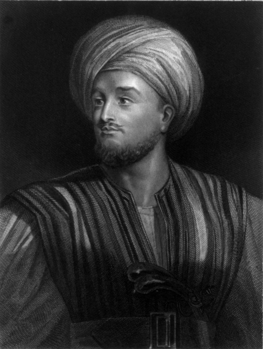 Richard Lander, Cornish explorer. Illus. in: Lander, Richard (1830), Clapperton's Last Expedition, London: Henry Colburn and Richard Bentley, frontispiece.